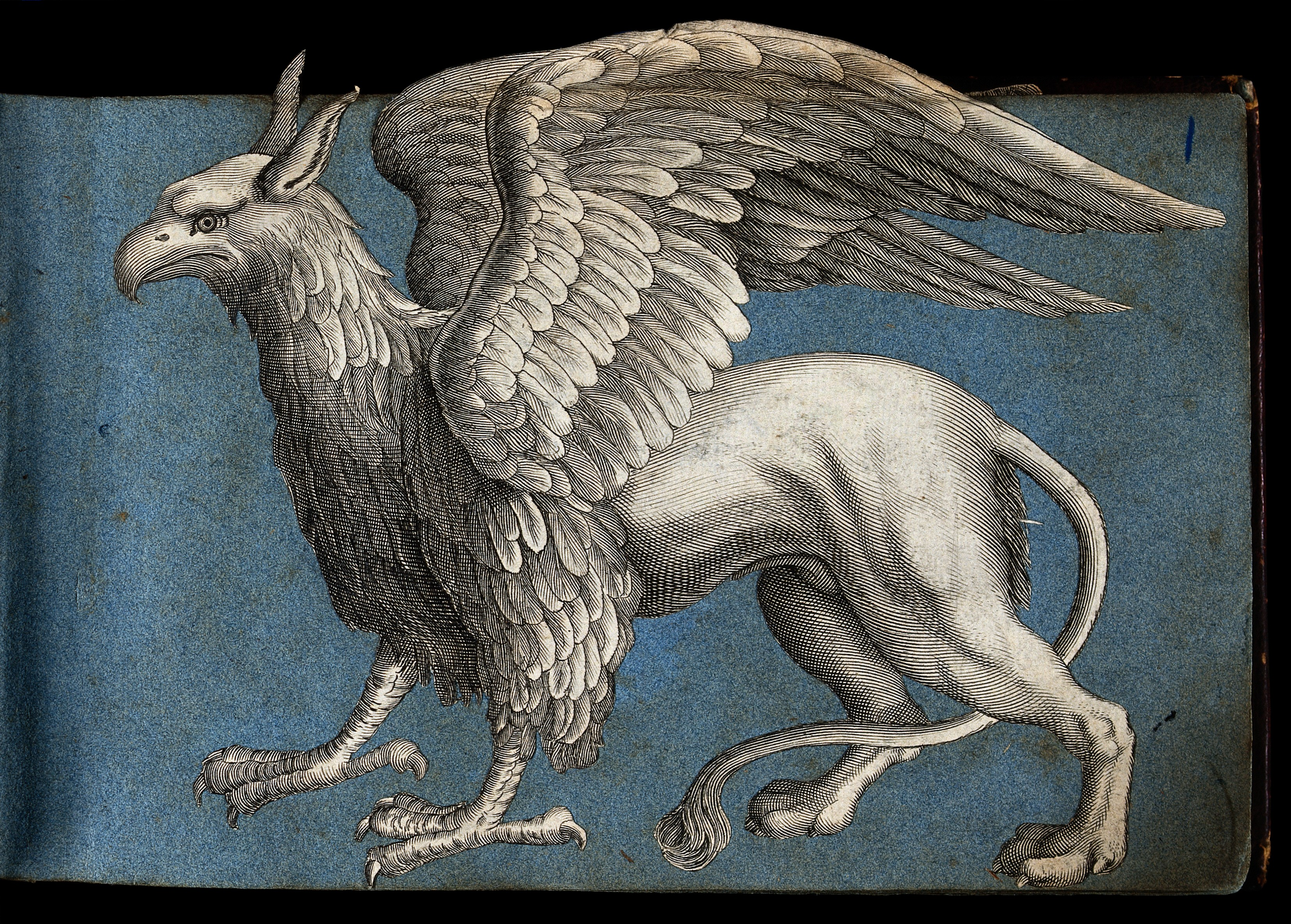 A griffen: side view of the mythical beast. Cut-out engraving pasted onto paper, 16--? Iconographic Collections Keywords: Mythology